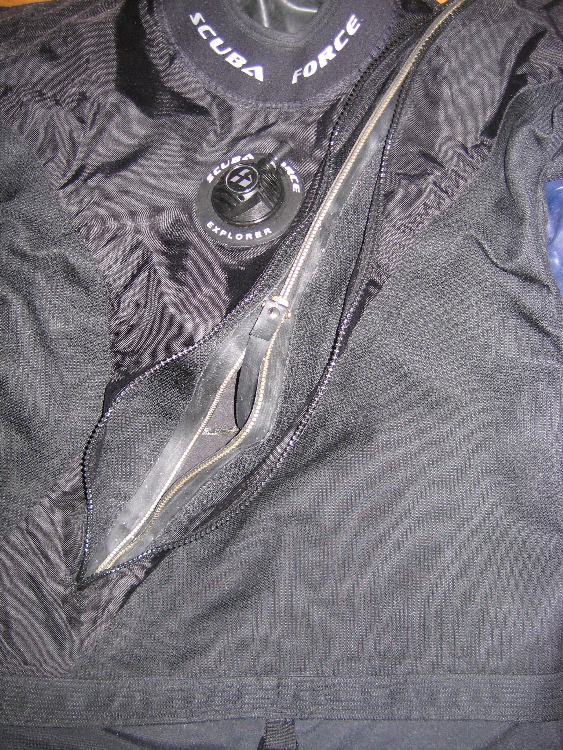 Waterproof zipper installed on a membrane type dry suit